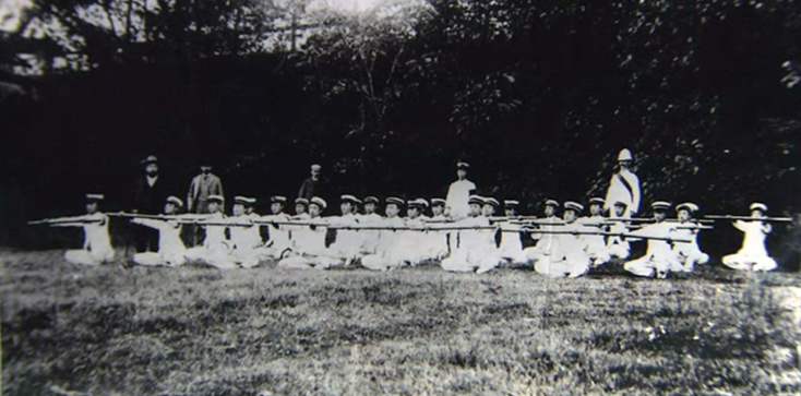 training of Korean soldiers by a retired Royal Navy officer.